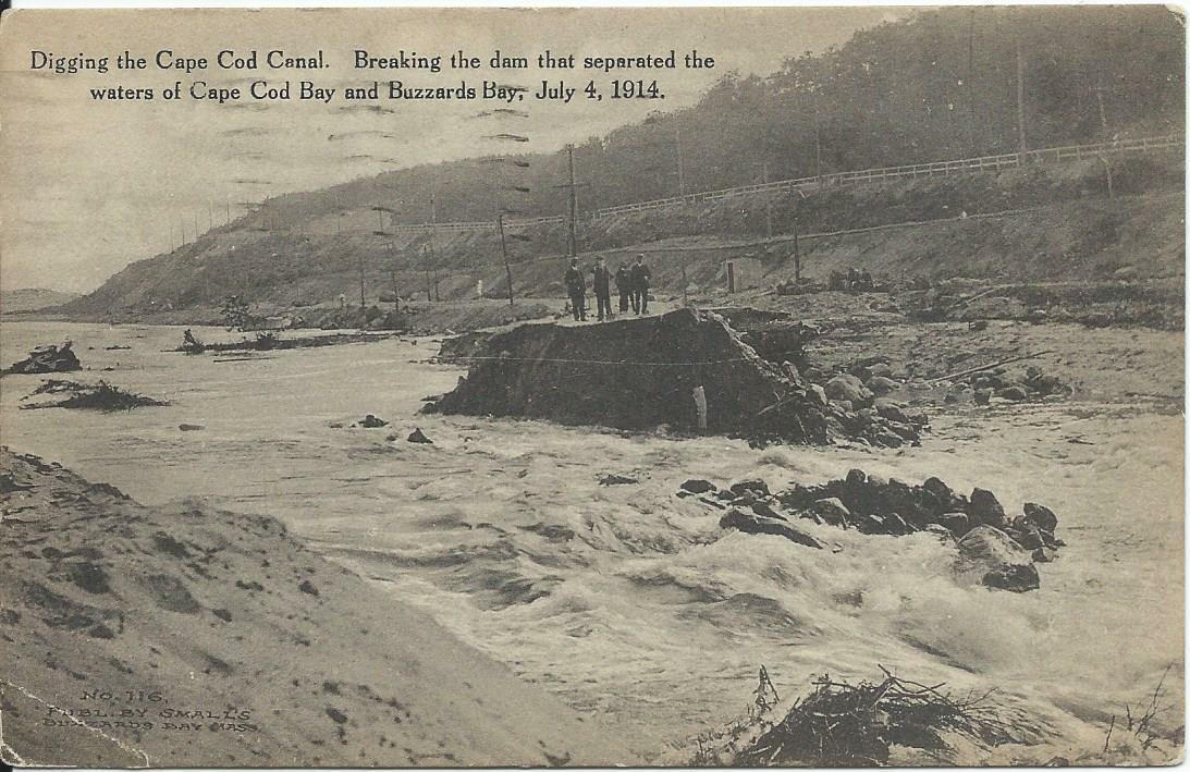 Early divided back postcard of the breaking of the dam between Cape Cod Bay and Buzzards Bay, thus creating flow through the Cape Cod Canal